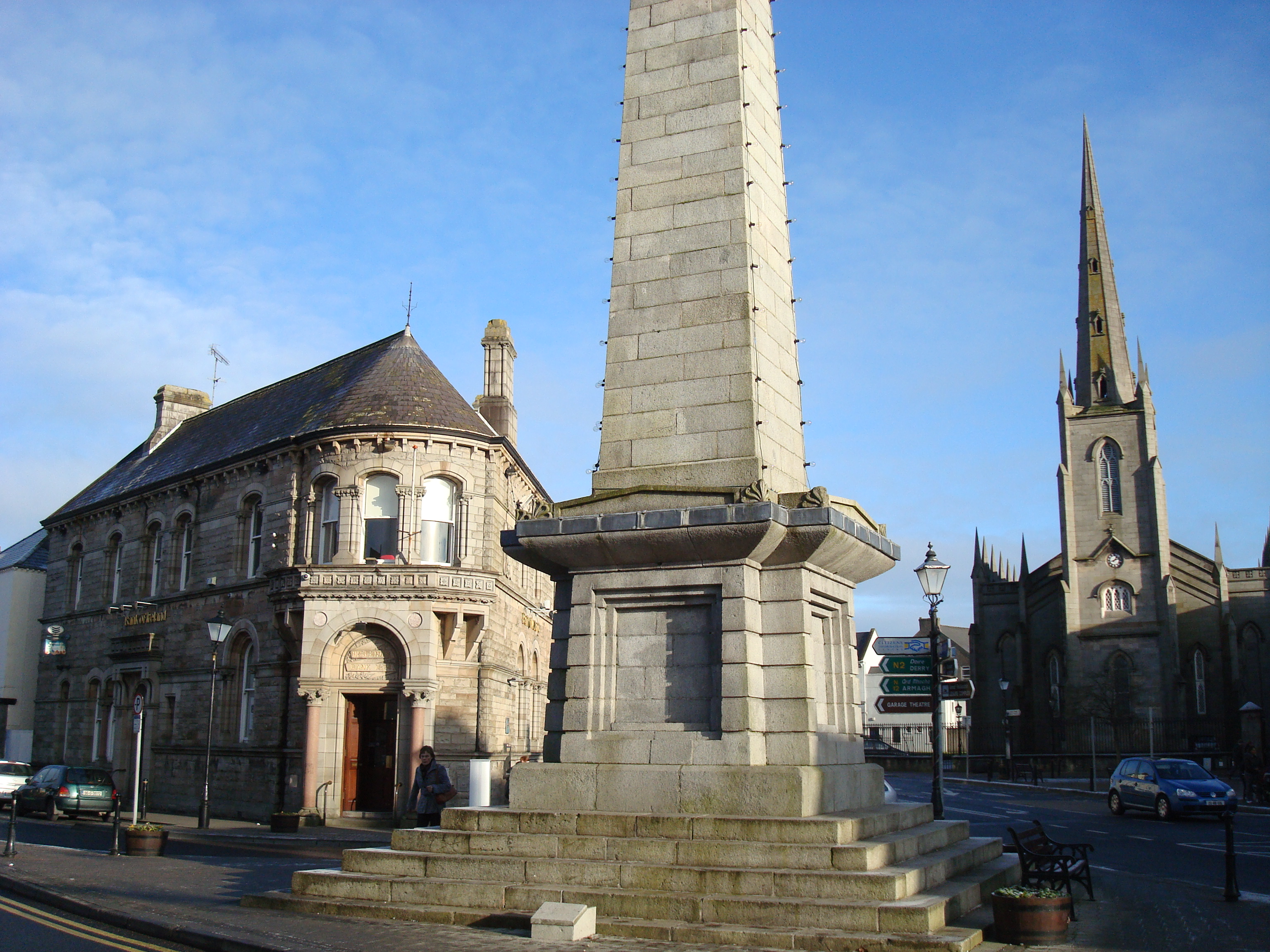 View of Church Square, Monaghan Town, with St Patrick's, the Monaghan Parish Church in the background